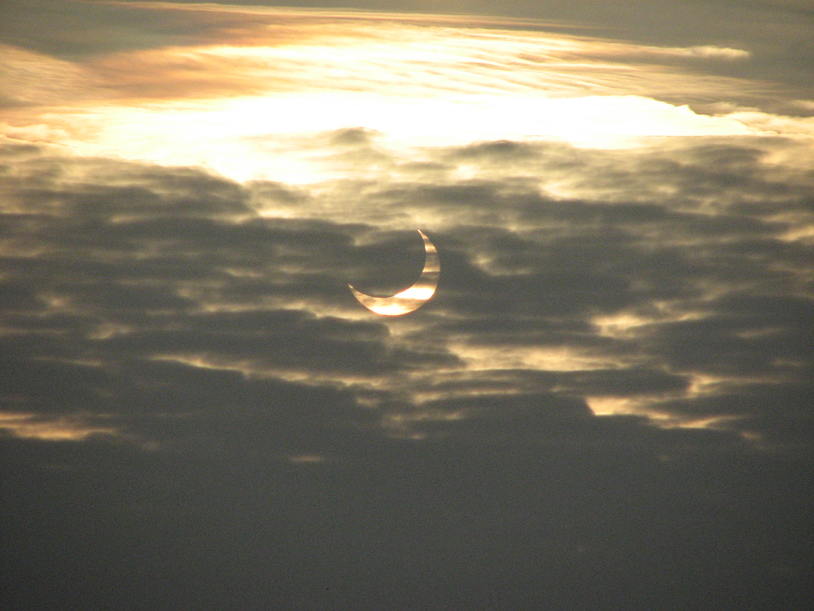 Partial solar eclipse in Germany from 04.01.2011